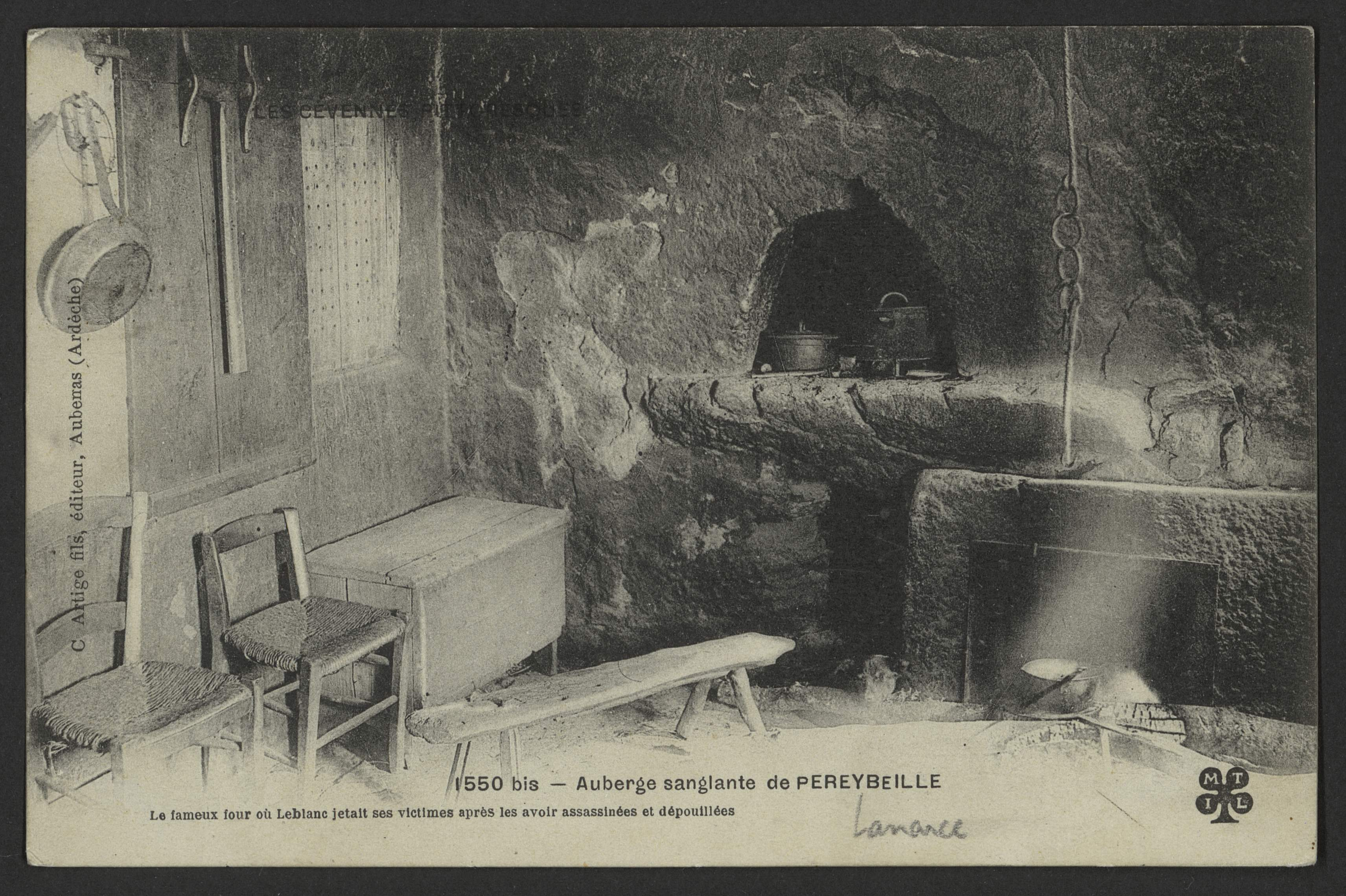 Ardèche